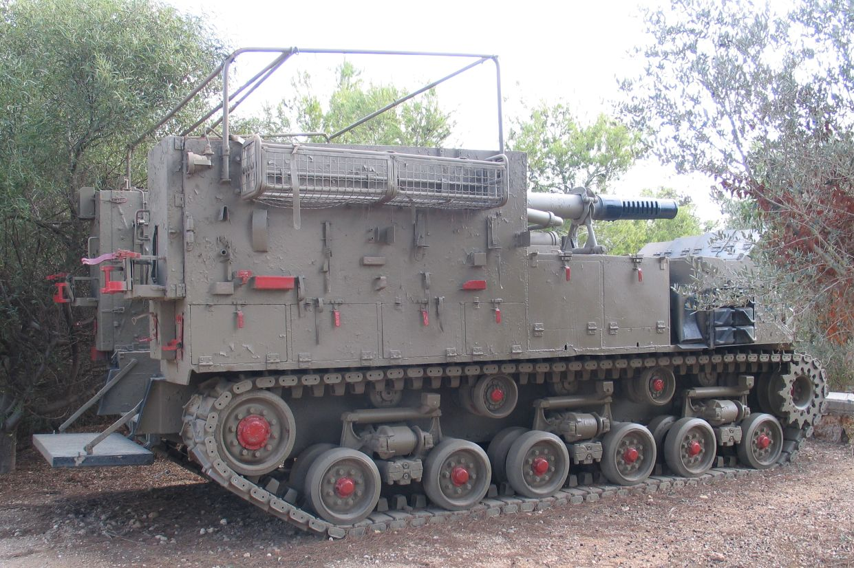 Description: M-50 Israeli 155 mm self-propelled howitzer on M4 Sherman chassis in Beyt ha-Totchan, Zichron Yaakov, Israel. Source: Photo by me, User:Bukvoed.